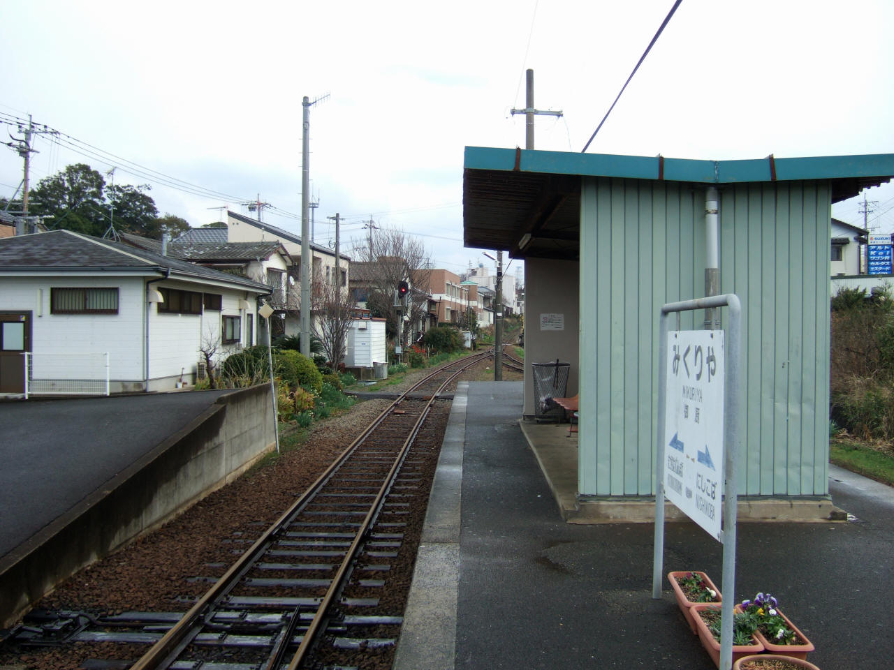 Matsuura Railway Mikuriya Station platform